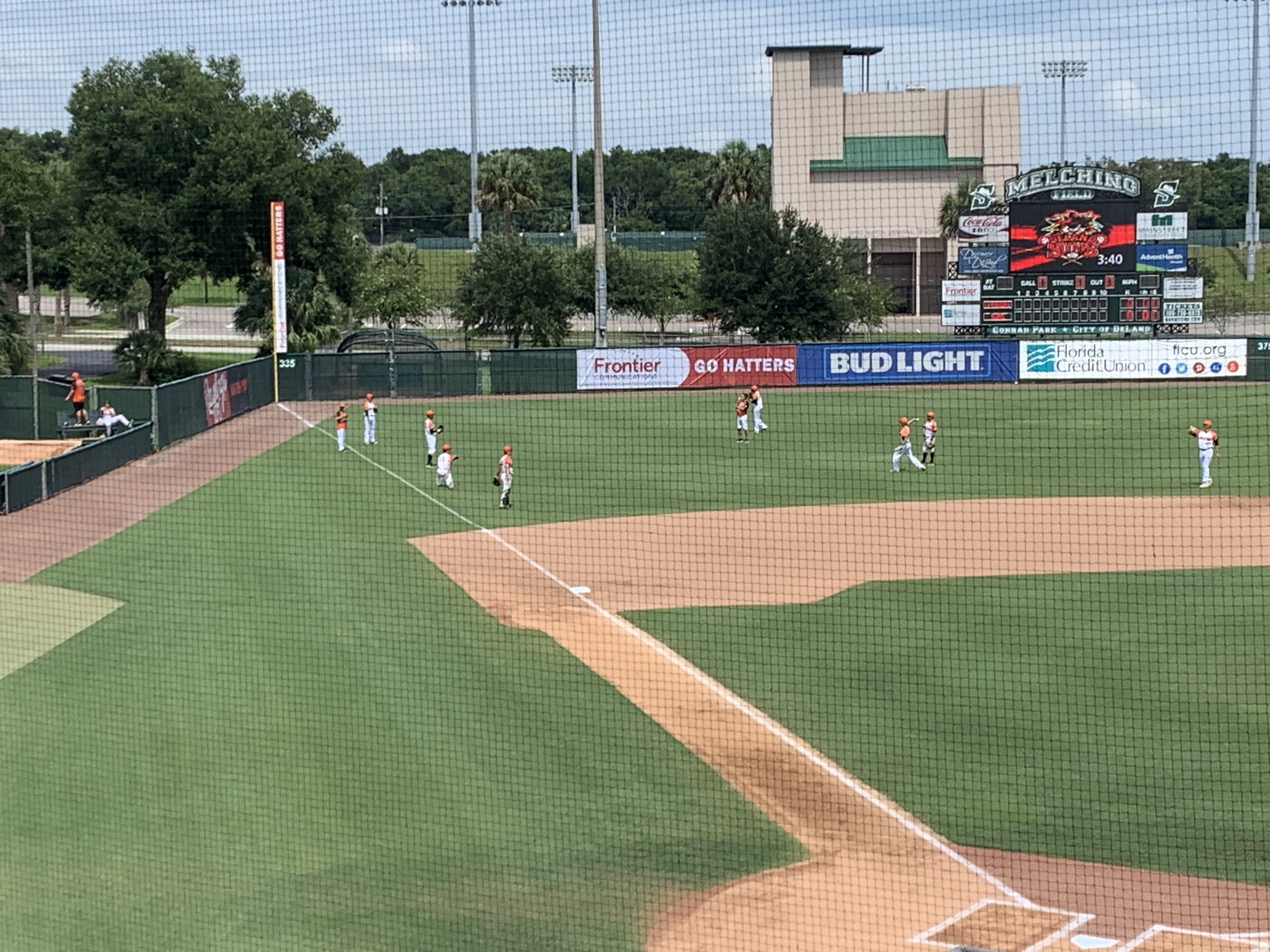 Refer to caption